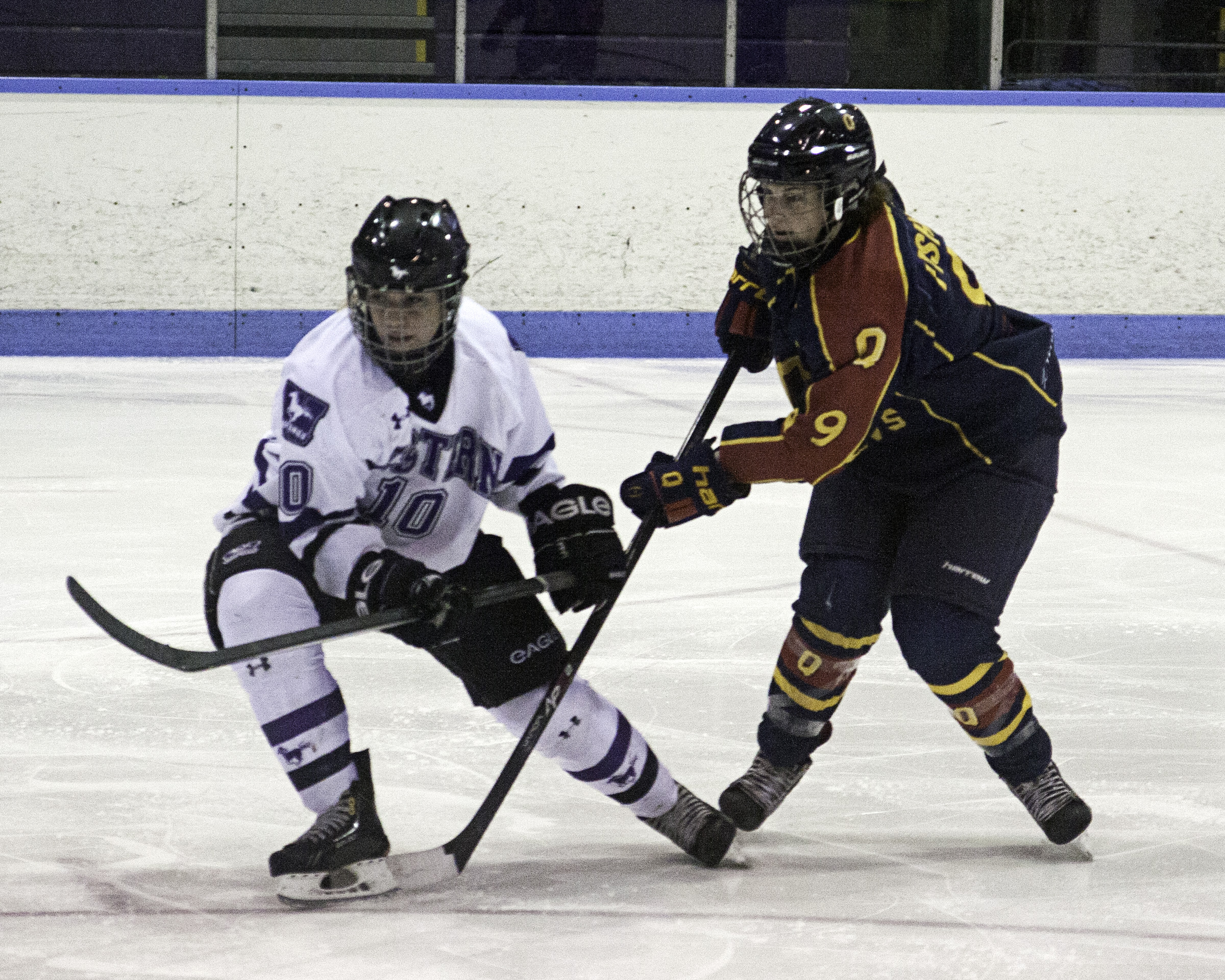 A photo from 2013-11-17 Women's hockey game at Thompson Arena, between the Western Mustangs and Queens Golden Gales